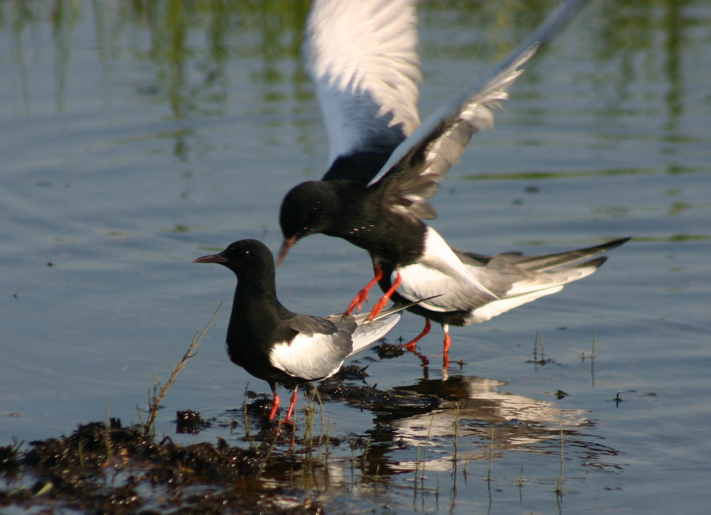 White-winged Tern (Chlidonias leucopterus) on field path in the valley of Narew (Poland)